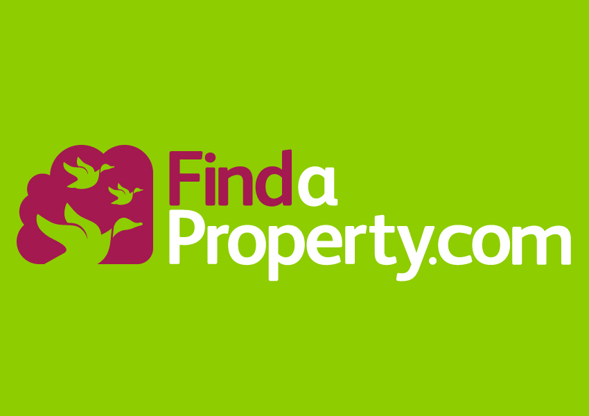 The official logo of UK property website